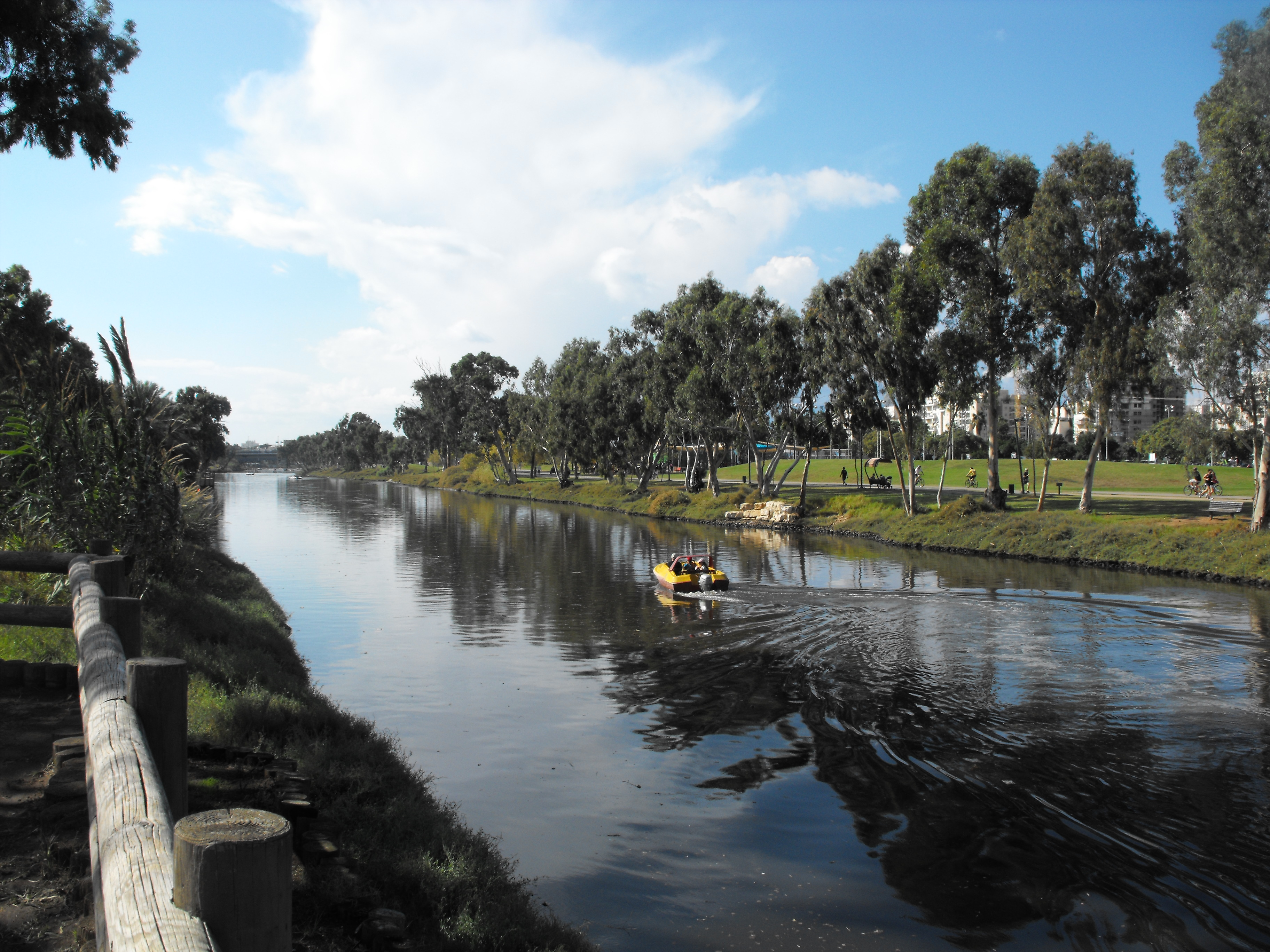 Tel-Aviv - Yarkon park, Geography of Israel